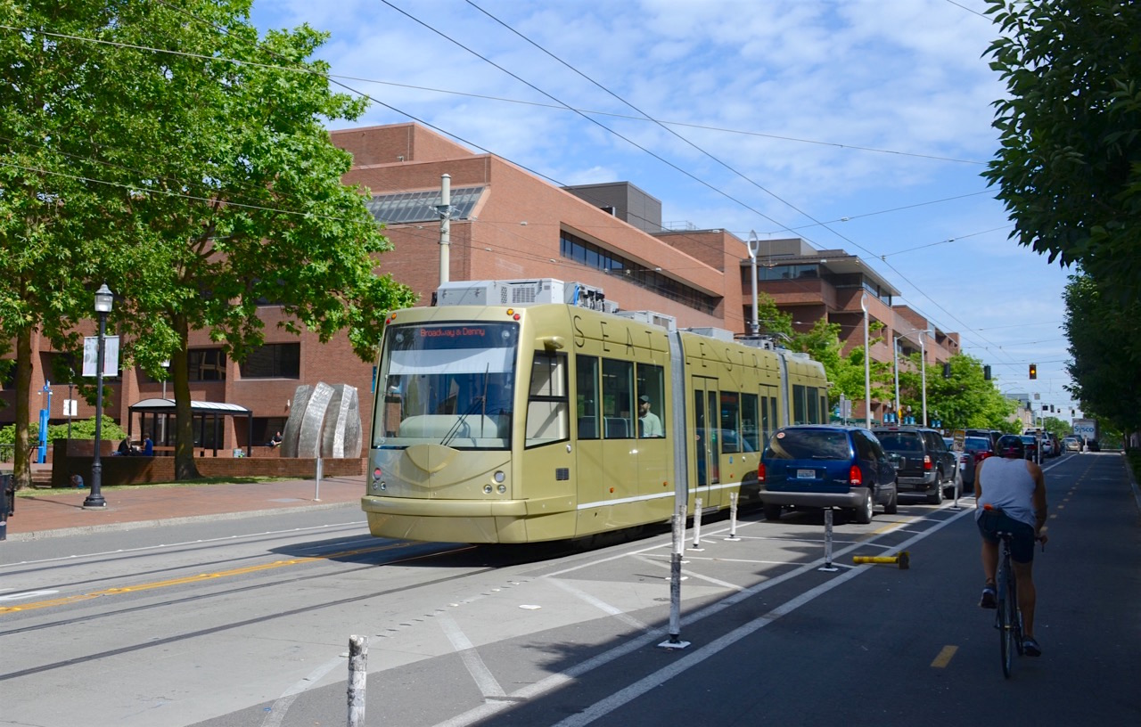 Seattle Streetcar system car 405 (an Inekon 121 Trio) running in battery mode on the First Hill Streetcar line, northbound on Broadway just north of Pine Street (going away from the camera). Seattle Central College is in the background.